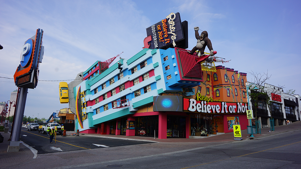 Ripley's Believe It or Not! Niagara Falls facade update 2016